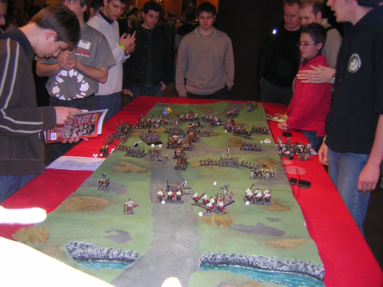 Interested people gathered around a Warhammer set-up.DSCN1414